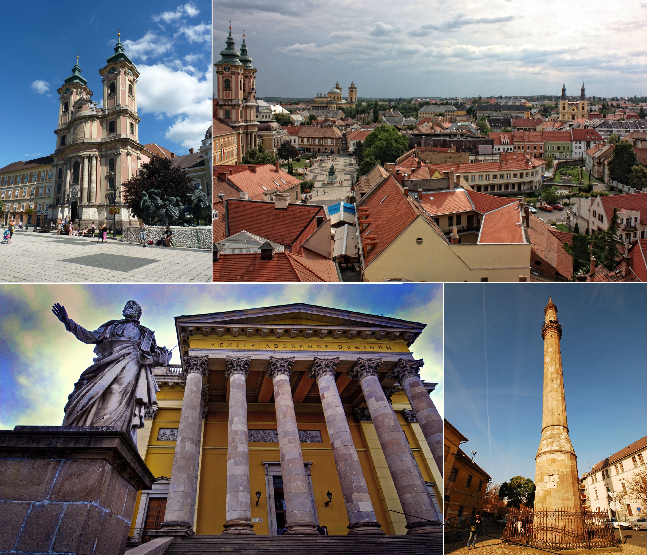 Eger montage